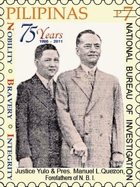 President Manuel L. Quezon and Justice Jose A. Yulo